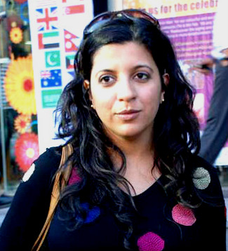 Indian director and scriptwriter Zoya Akhtar